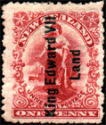 King Edward VII Land Stamp of 1908 (a black overprint on 1 p red New Zealand stamp.)